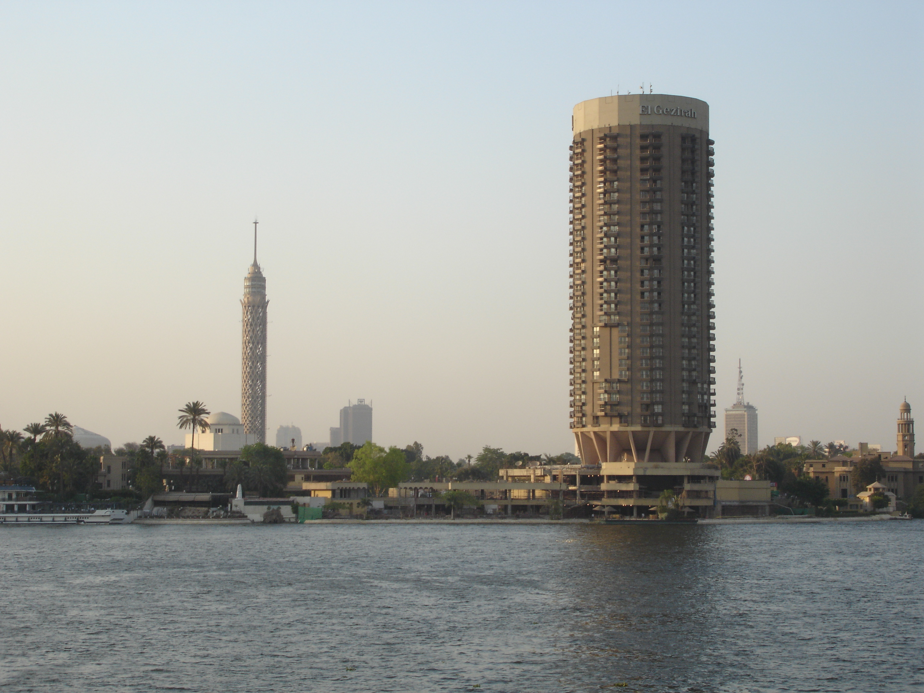 Skyline of Cairo from the River Nile, featuring the Sofitel El Gezirah Hotel